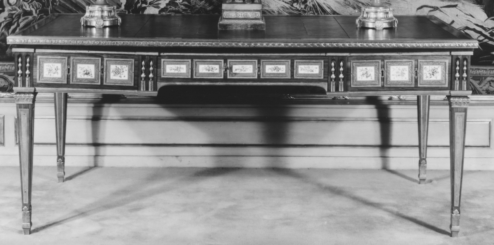 French, Paris and Sèvres; Table; Woodwork-Furniture